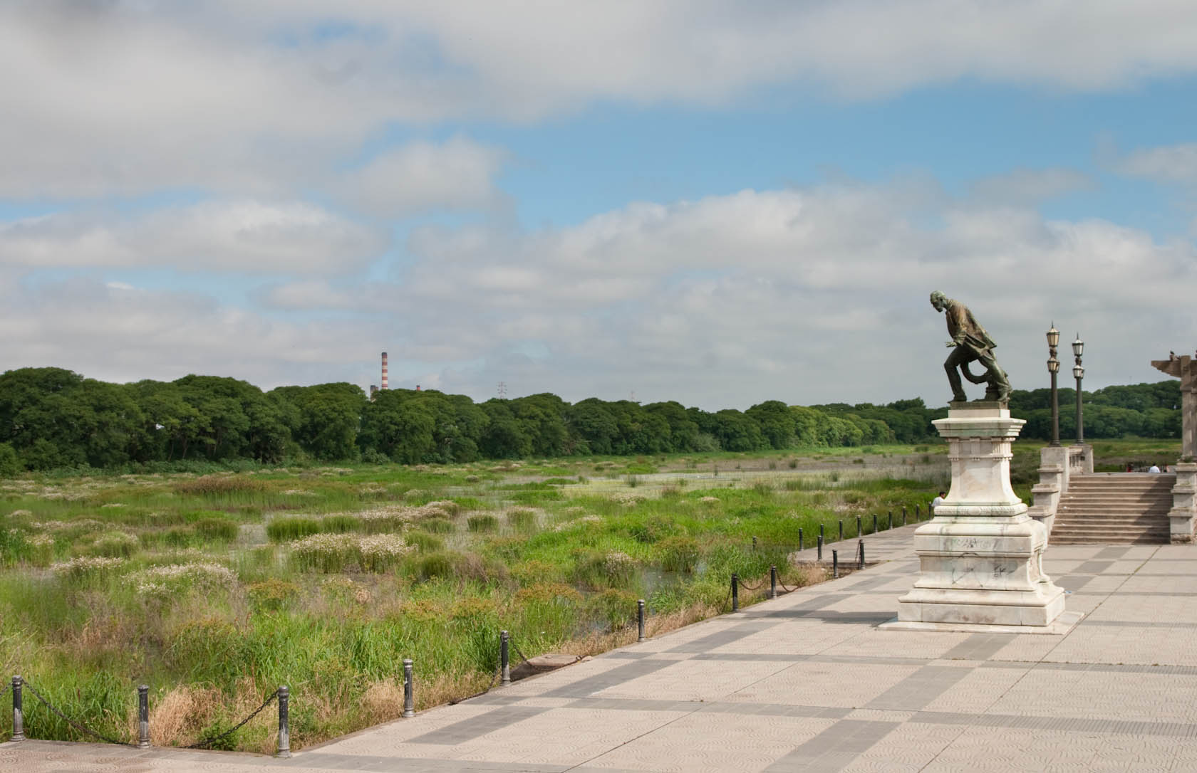 Monument to Luis Viale (1882) by Italian sculptor Eduardo Tabacchi, commissioned by Carmen Pinedo de Marcó del Pont in gratitude for his having given her his life preserver during an 1871 riverboat disaster, thereby losing his own life. Located on the promenade along the former Costanera Sur (Riverwalk - South), in the Puerto Madero section of Buenos Aires.